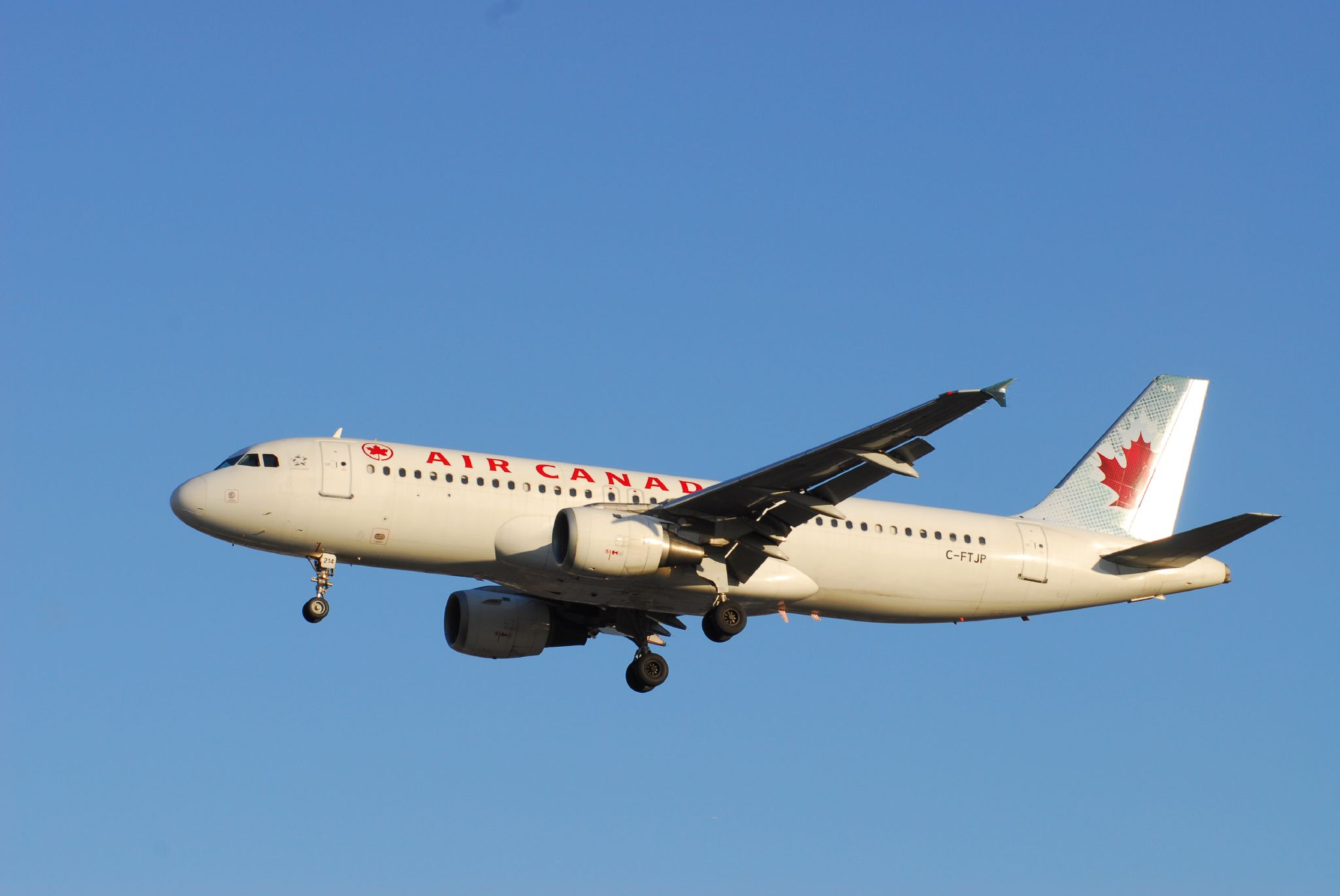 Air Canada A320 C-FTJP on final approach at Toronto Pearson International Airport